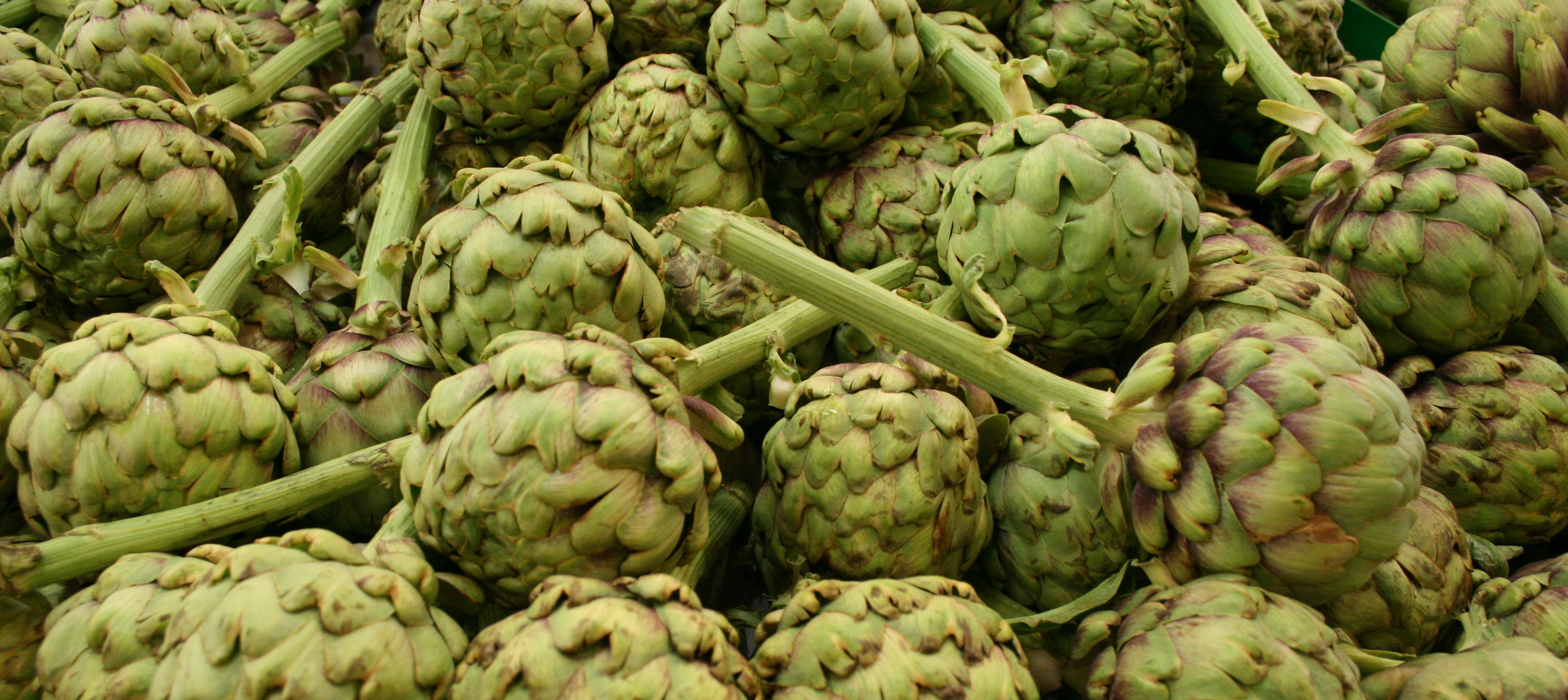 Stacked artichokes in a fruit and vegetable store.